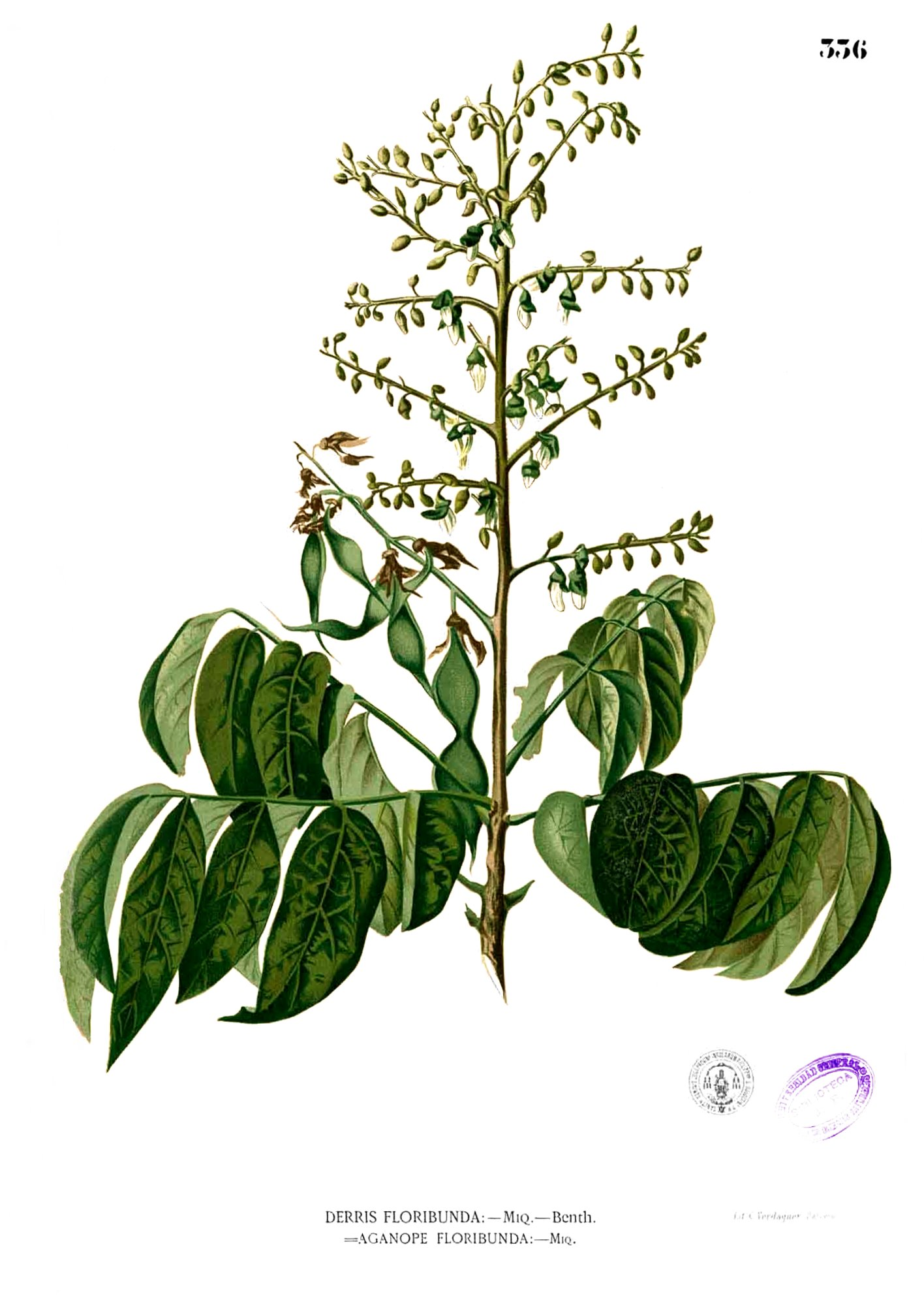 Plate from book